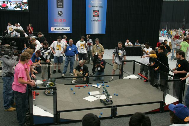 A picture of a Half-Pipe Hustle match during the operator control period.